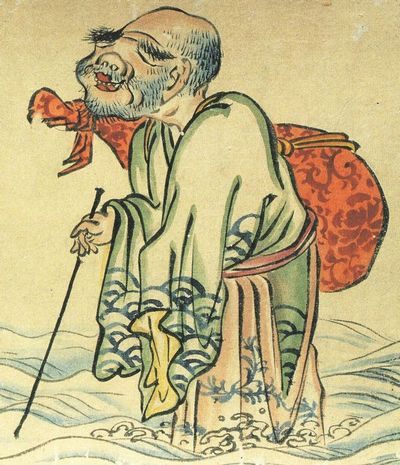 Umizatō (海座頭, a blind man walking on the surface of the sea) from the Hyakki-Yagyō-Emaki (百鬼夜行絵巻)